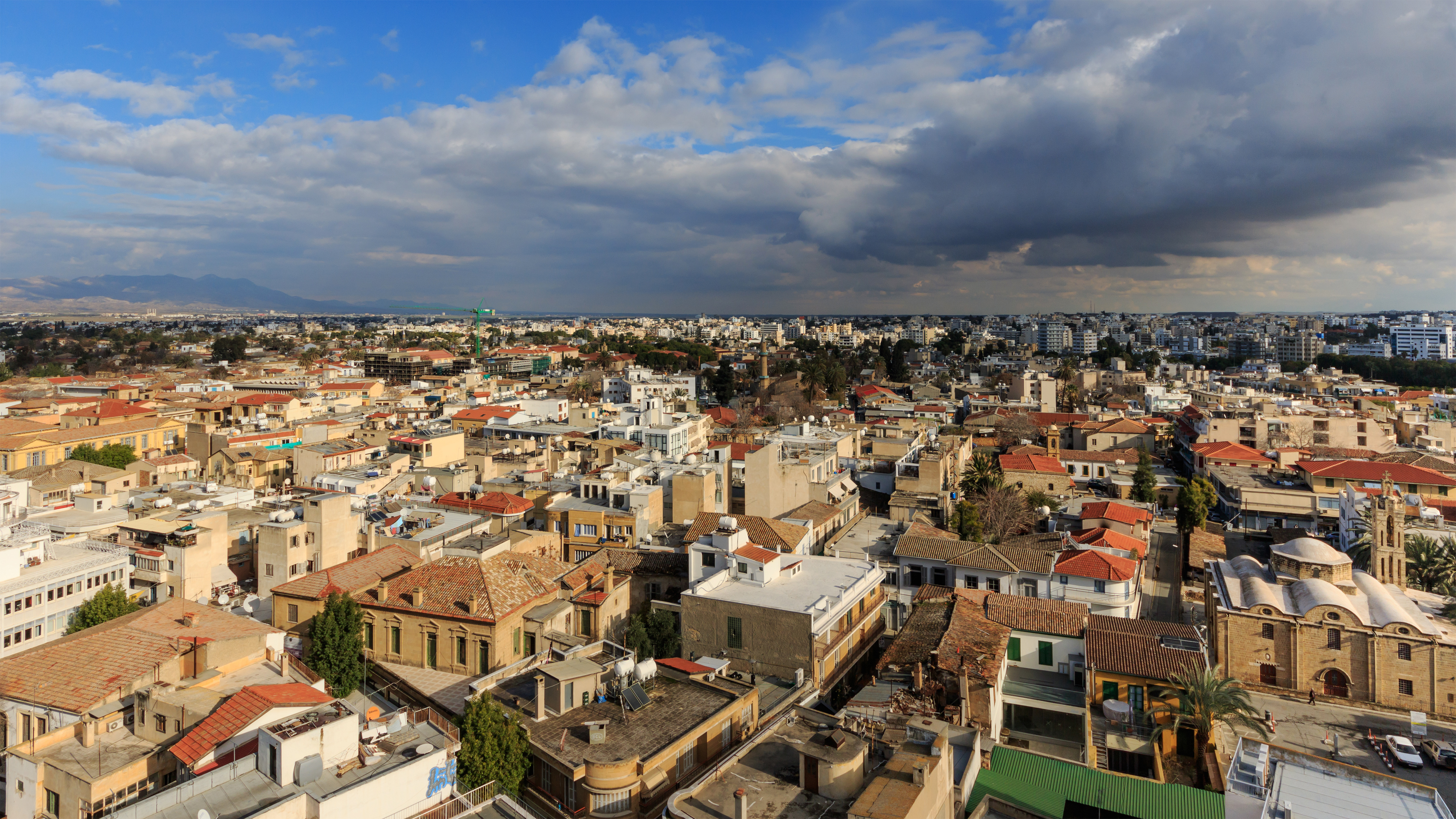 View from Shacolas Tower (Ledra Street Observatory) in Nicosia, Cyprus